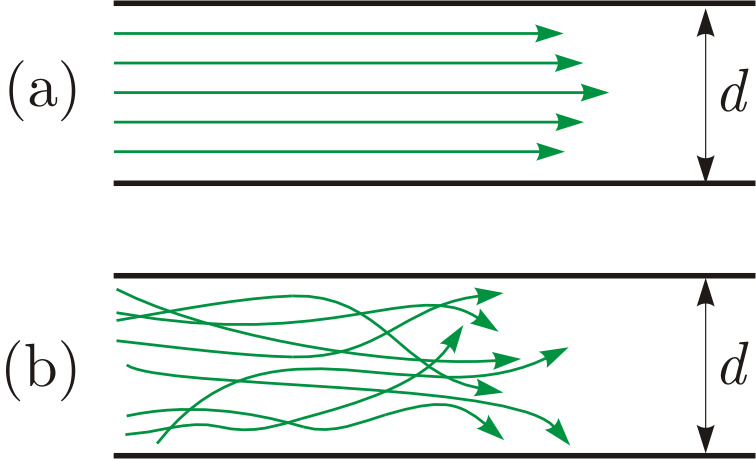 laminar, turbulent flow, Reynolds number